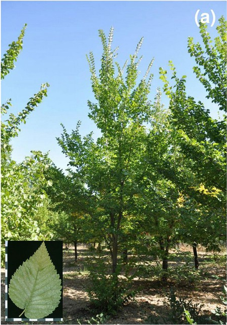 Ulmus minor 'Ademuz'